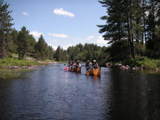 Scouts earning the en:50-Miler Award while on a ~62 mile canoeing trip in the Boundary Waters Canoe Area Wilderness